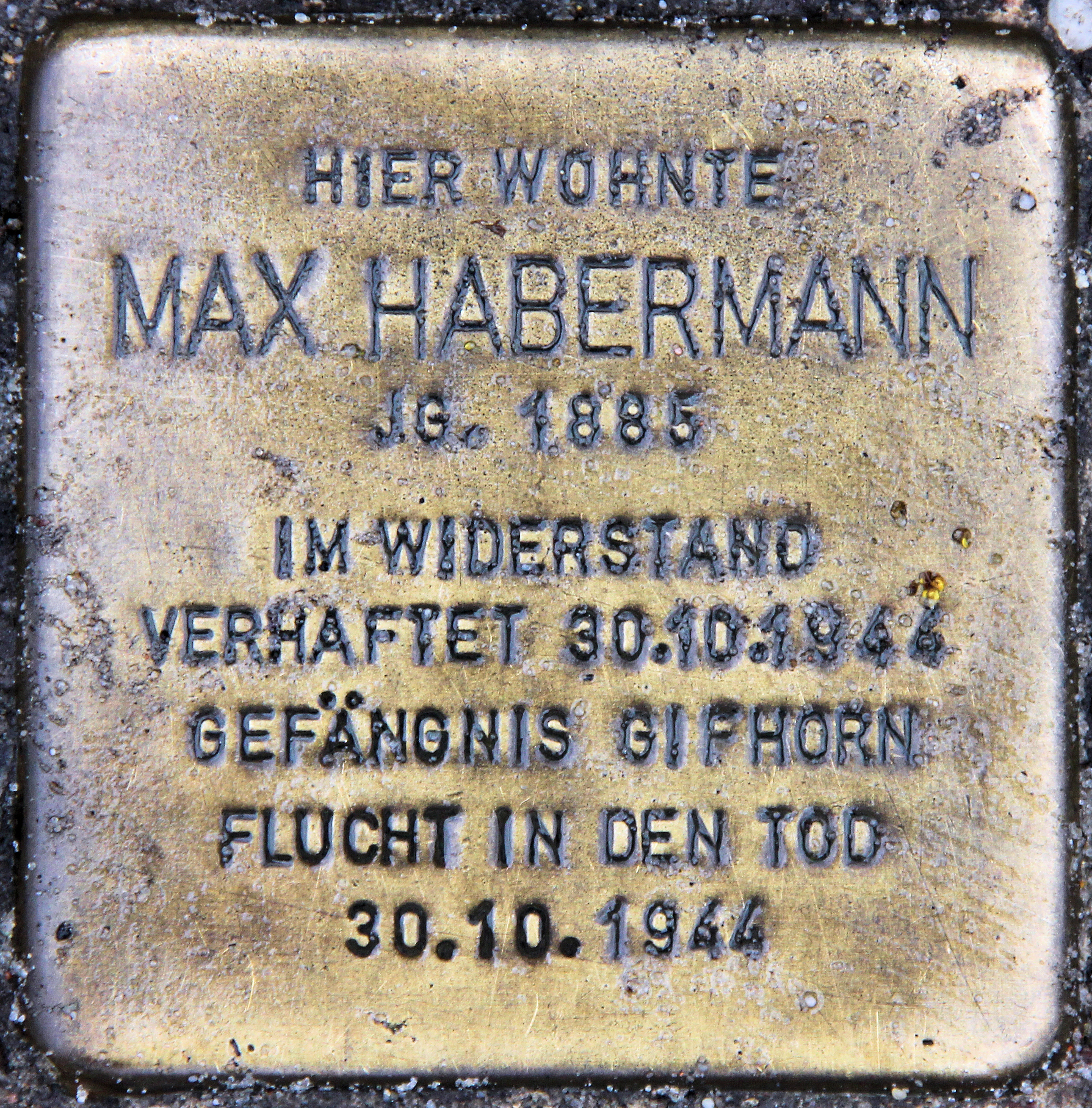 "Stolperstein" (stumbling block), Max Habermann, Ostpreußendamm 51, Berlin-Lichterfelde, Germany Koordinate:52°25′34″N 13°19′1″E / 52.42611°N 13.31694°E